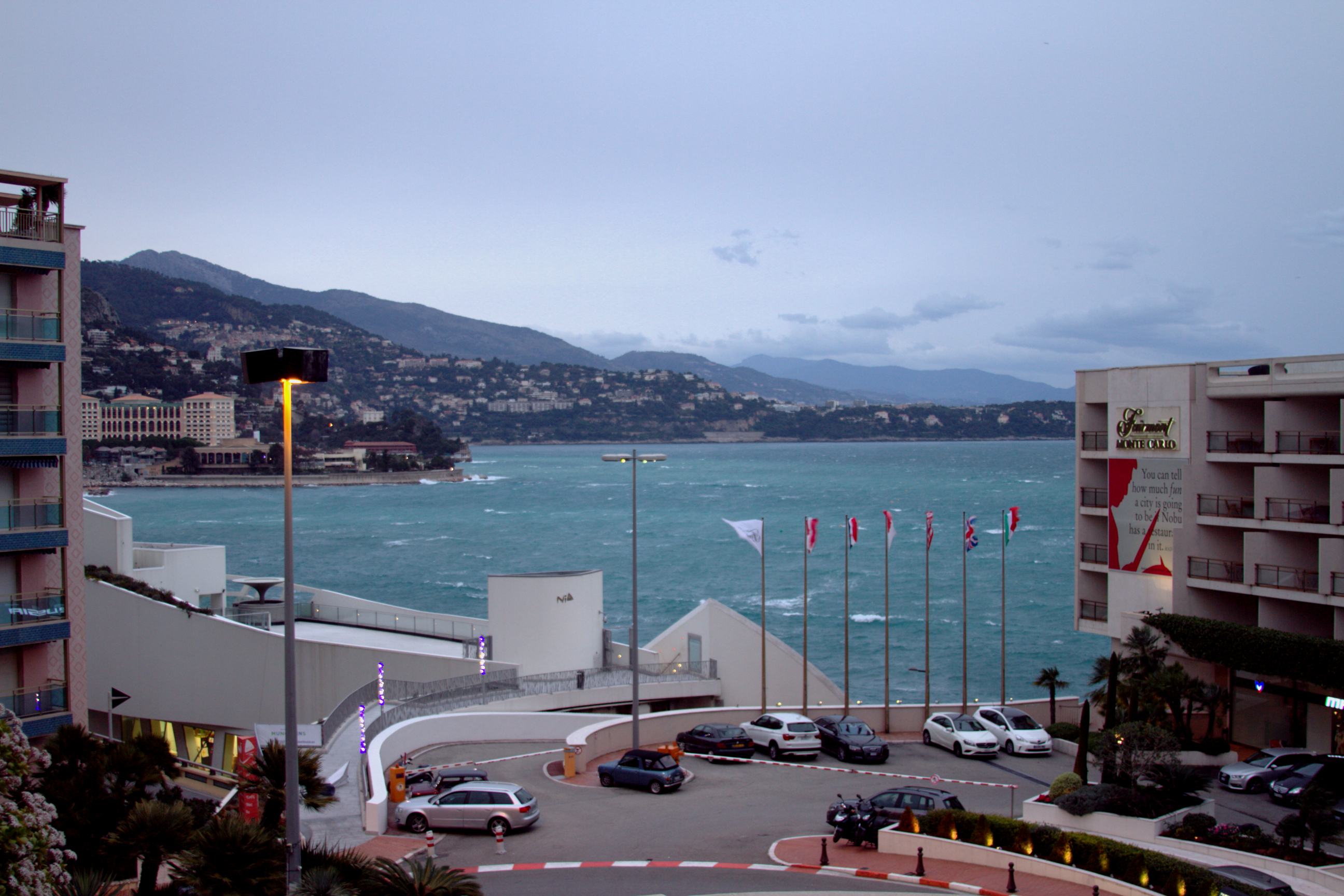 Crowded Monaco